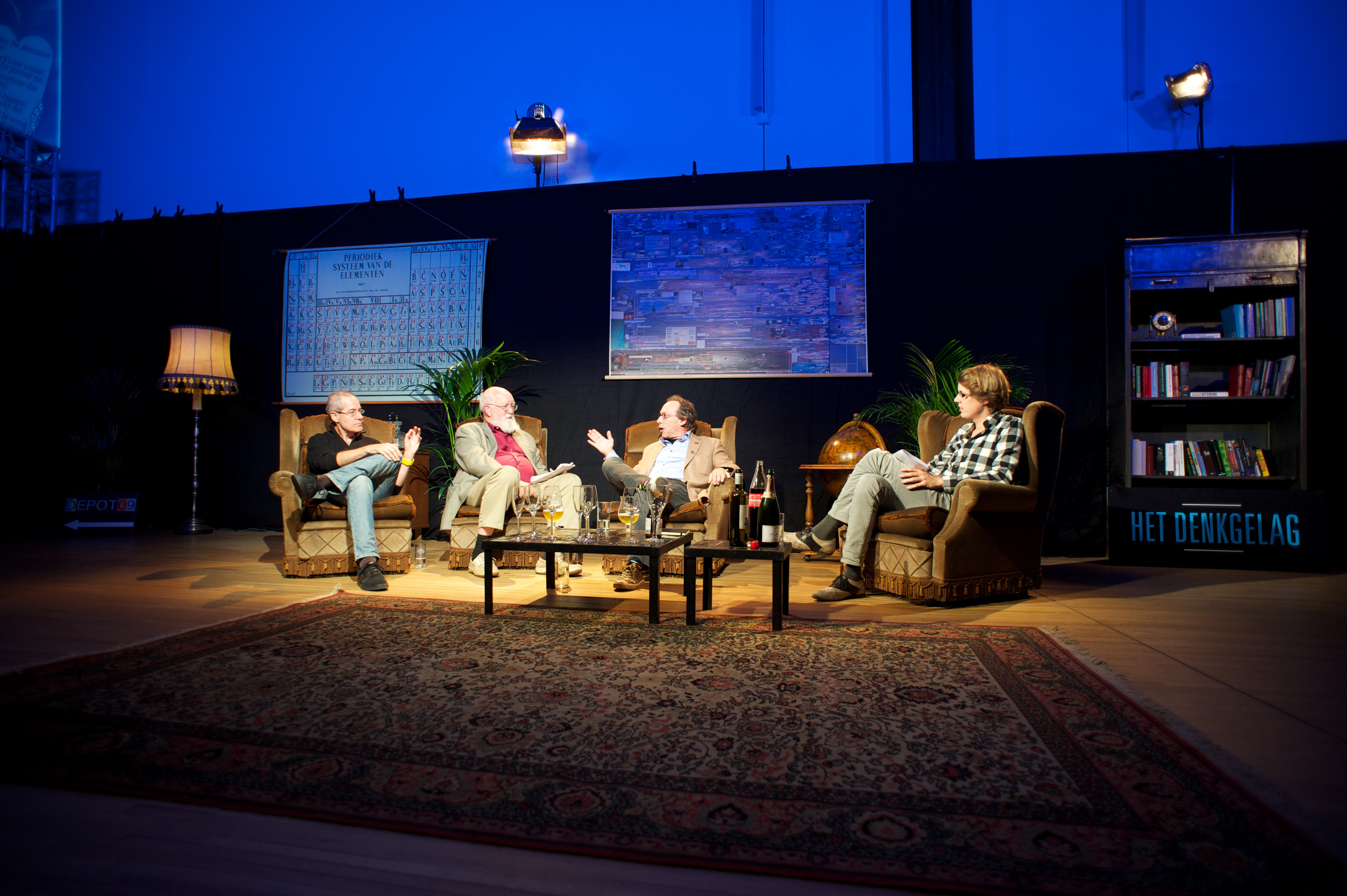 October 17, 2013 - Ghent, Belgium. Debate with Daniel Dennett, Massimo Pigliucci en Lawrence Krauss moderated by Maarten Boudry.